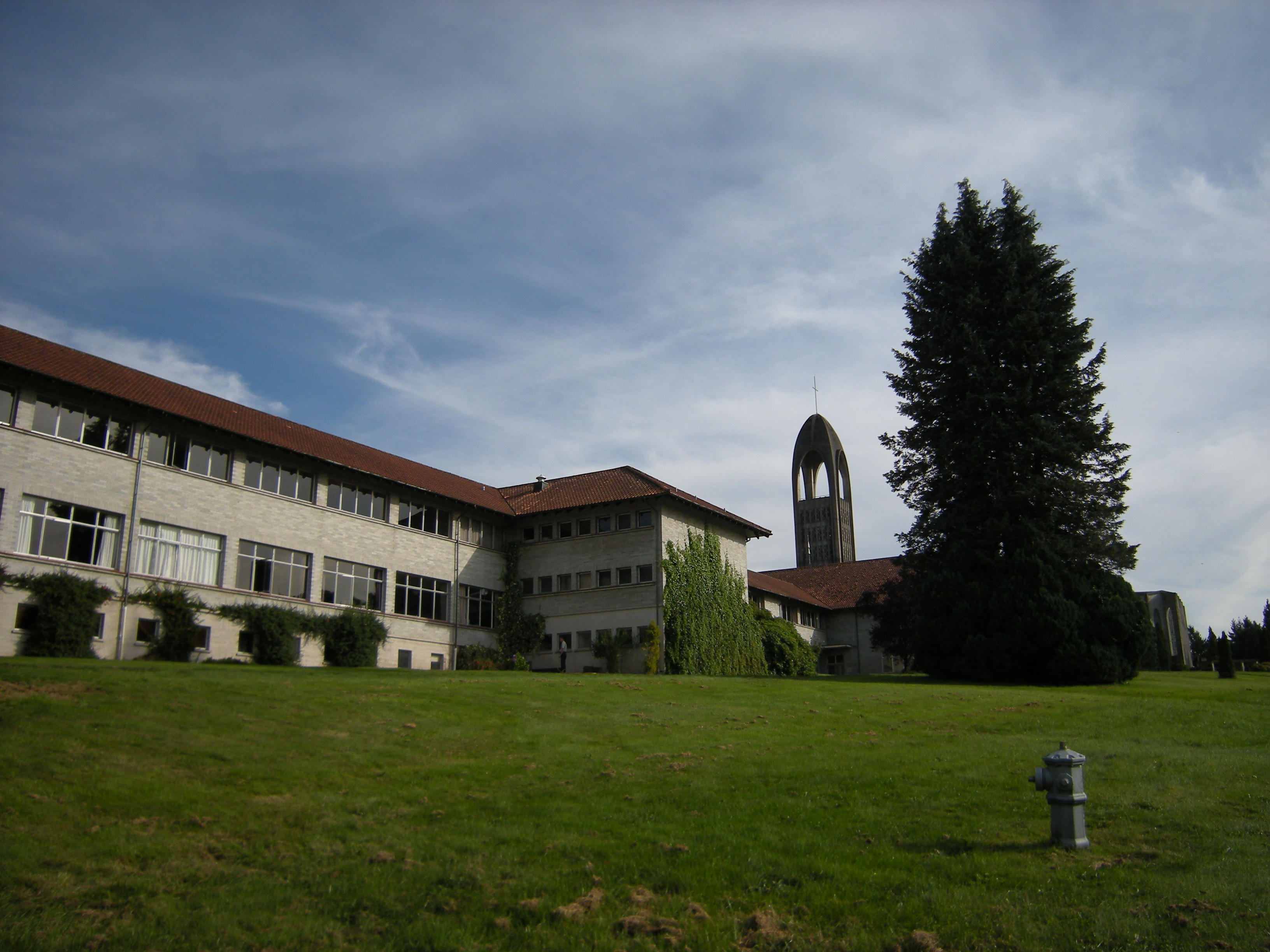 Seminary of Christ the King & Westminster Abbey, Mission, British Columbia.